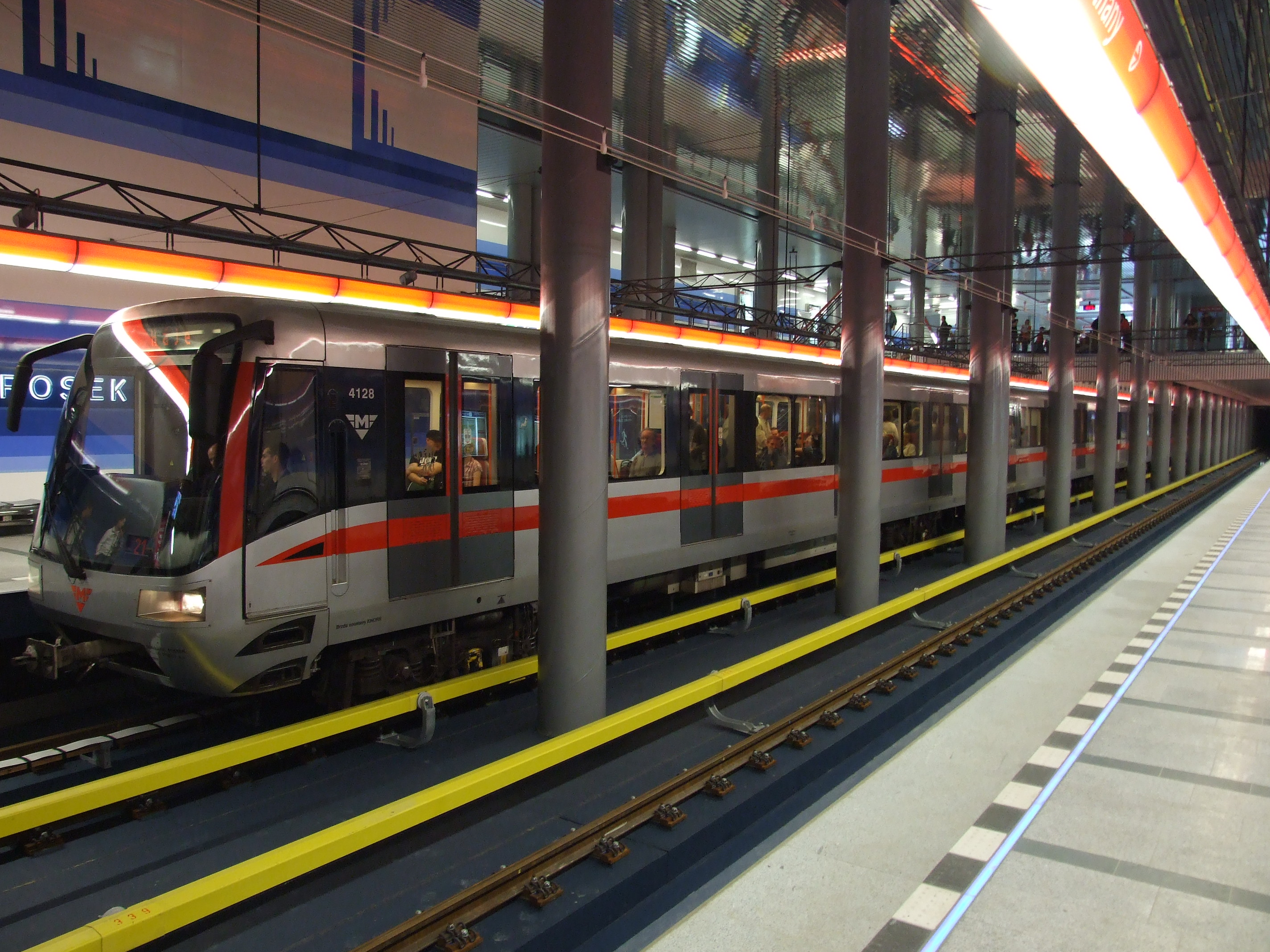 Prosek metro station in Prague, several hours after opening for publichelp